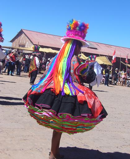 Taken by me, Brad Bernard, 2006. This is the traditional dress of the natives during the annual Fiesta de Santiago festival.